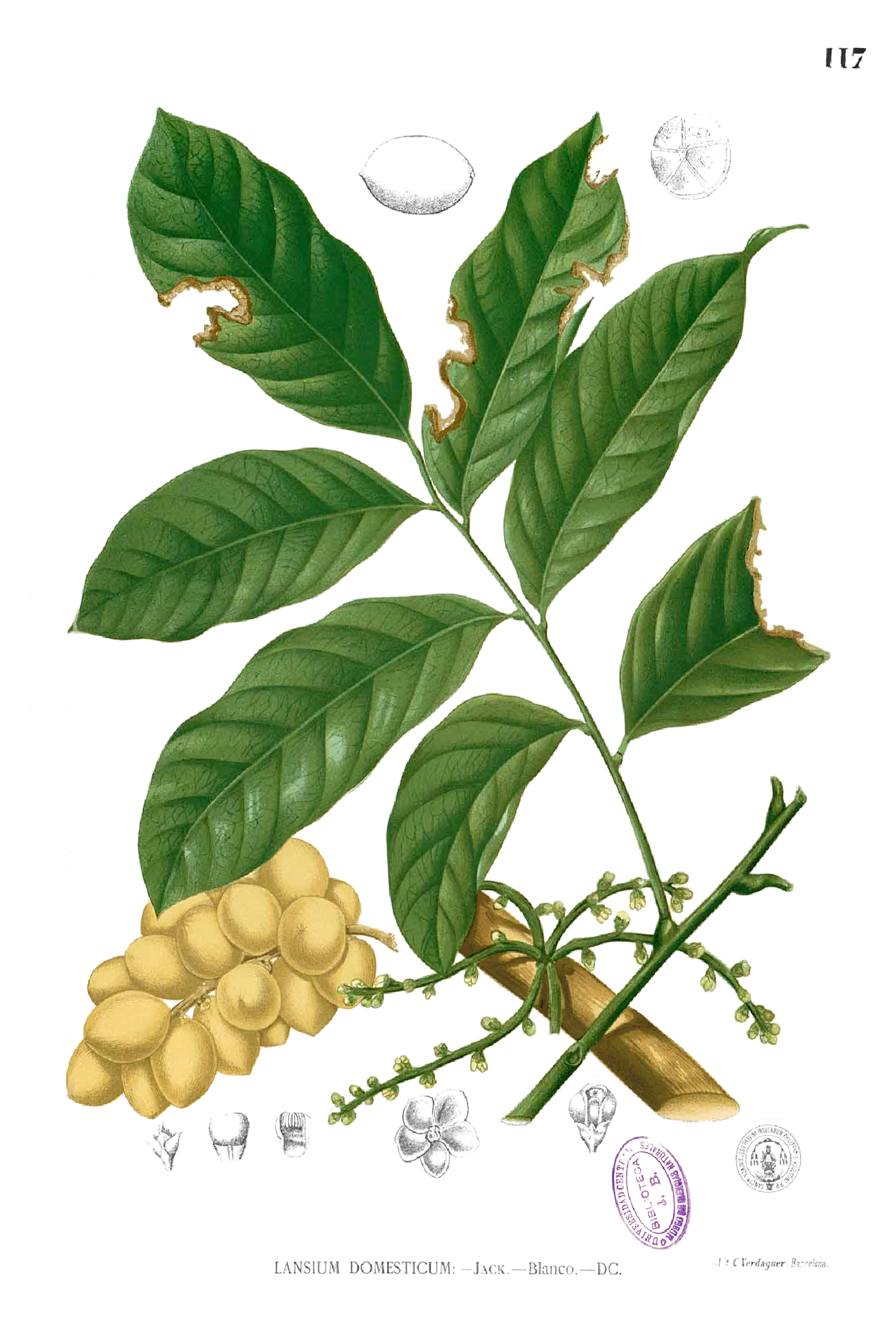 Plate from book